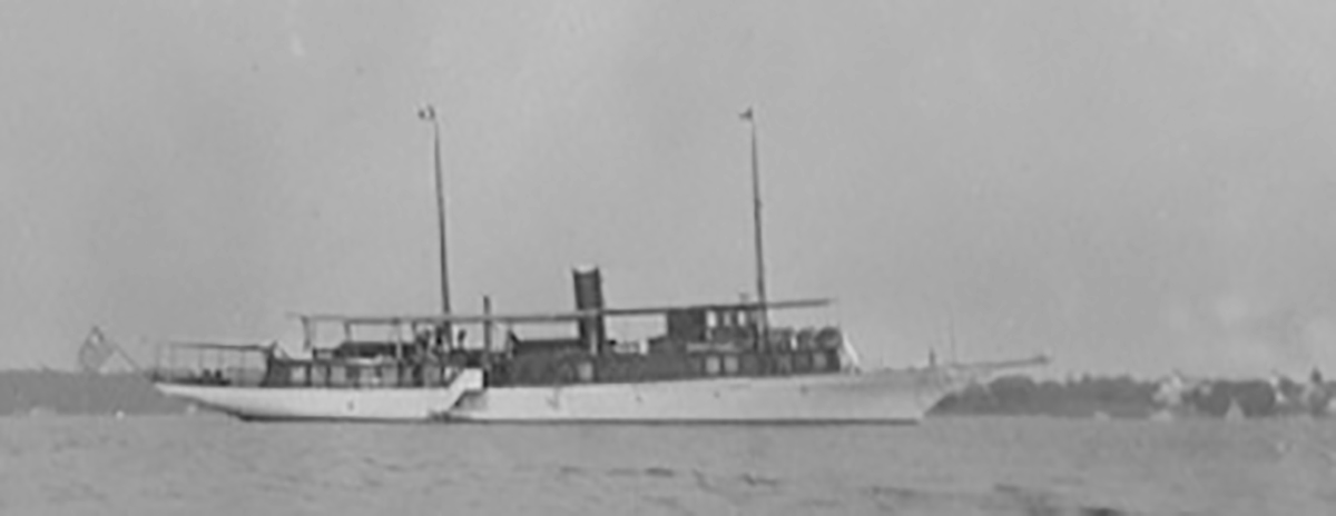 Jemima F. III, 1908 yacht owned by Charles Henry Fletcher, at the time the largest power yacht in the world.